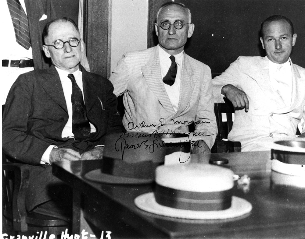 The first board of the Tennessee Valley Authority, photographed in 1933. From left to right, Director Harcourt Morgan, Chairman Arthur Morgan, and Director David Lilienthal.